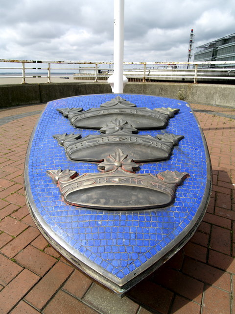 Hull's Three Crown Emblem near to the Pier This is on Minerva Pier